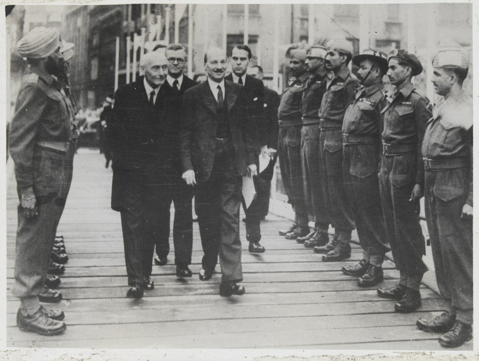 The 10th Division had fought in Iraq, Syria and Iran before moving to North Africa for the battle for Libya. It fought at El Adem during the Battle of Gazala and then saw action at Mersa Matruh during Eighth Army's retreat to El Alamein. The division then went to Cyprus for regrouping and training. In March 1944 it was posted to Italy, where it faced hard fighting with the Eighth Army, including the breaking of the Gothic Line. Atlee was Prime Minister when India and Pakistan gained their independence on 14 and 15 August 1947.